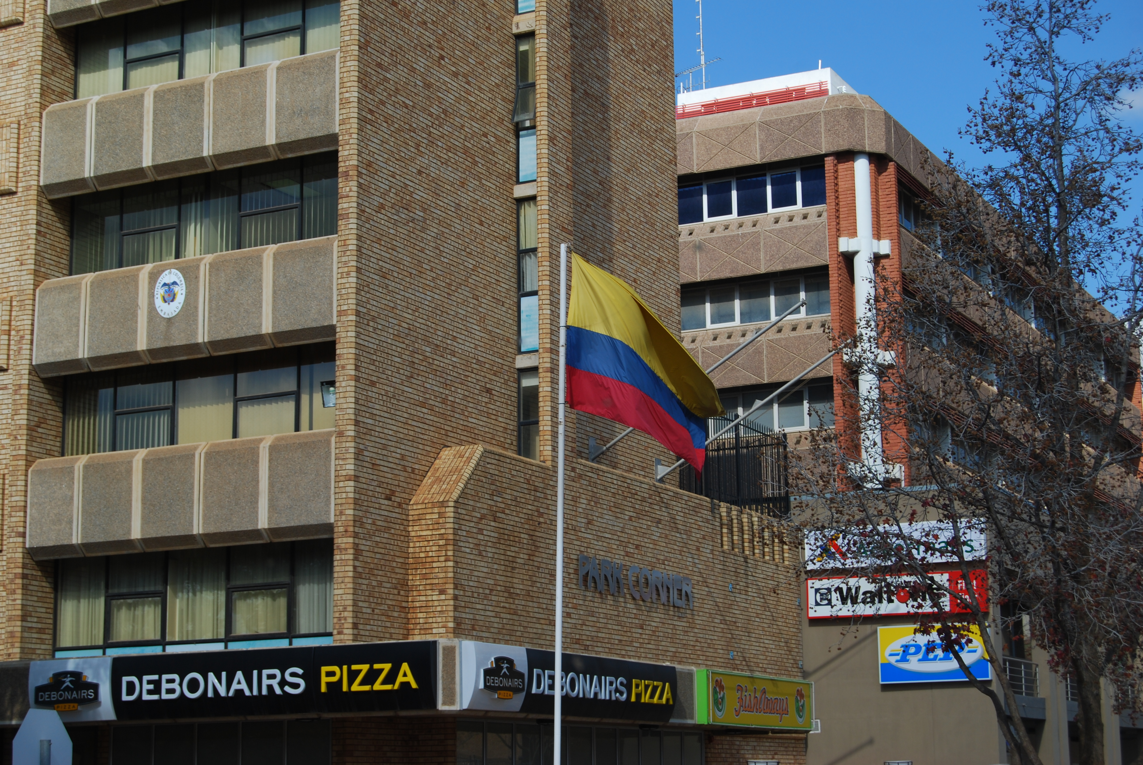 Former Colombian Embassy in Pretoria, South Africa